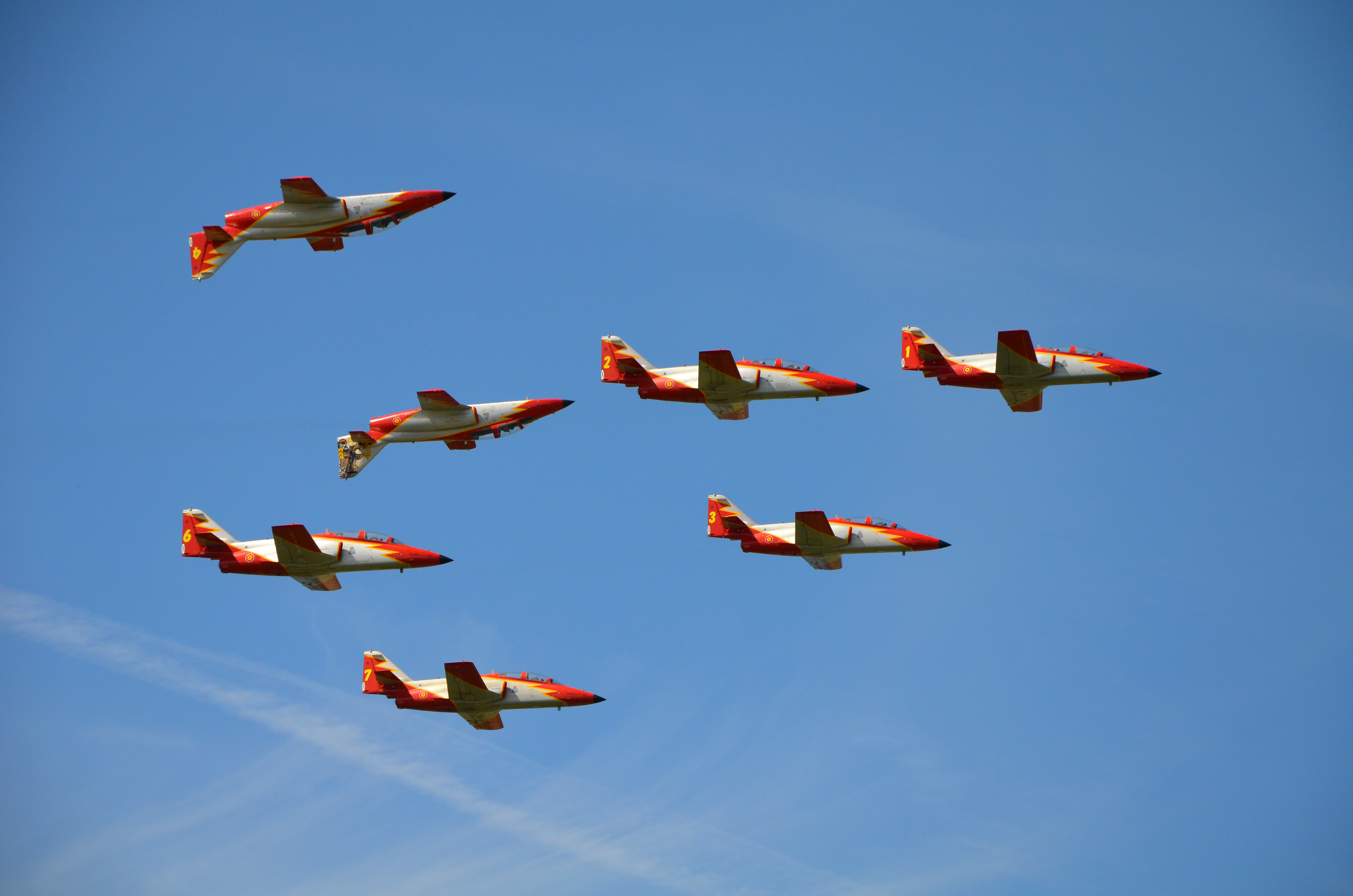 The spanish Patrulla Águila at the Air14 air show, in Payerne (Switzerland) in August 2014